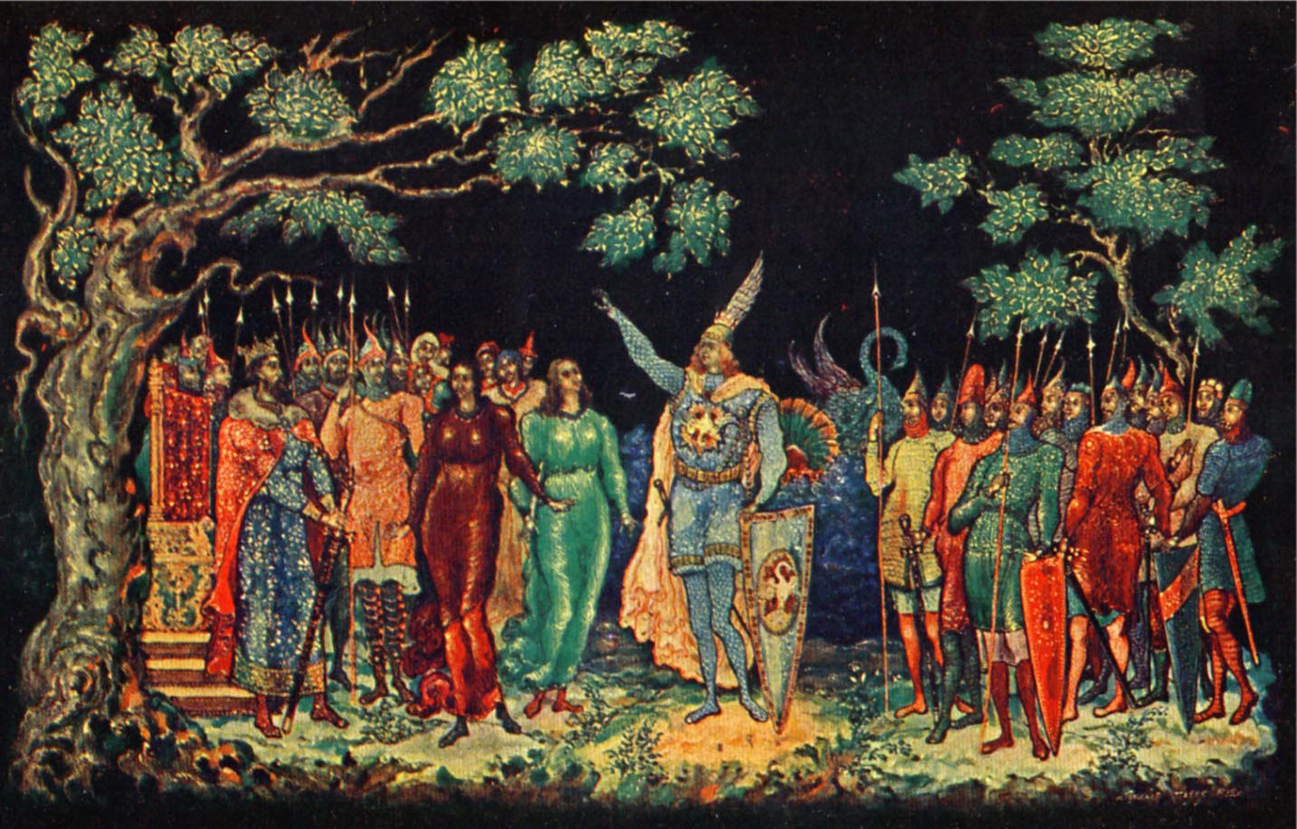 Russian opera singer Leonid Sobinov as Lohengrin by Russian Palekh painter Ivan Golikov